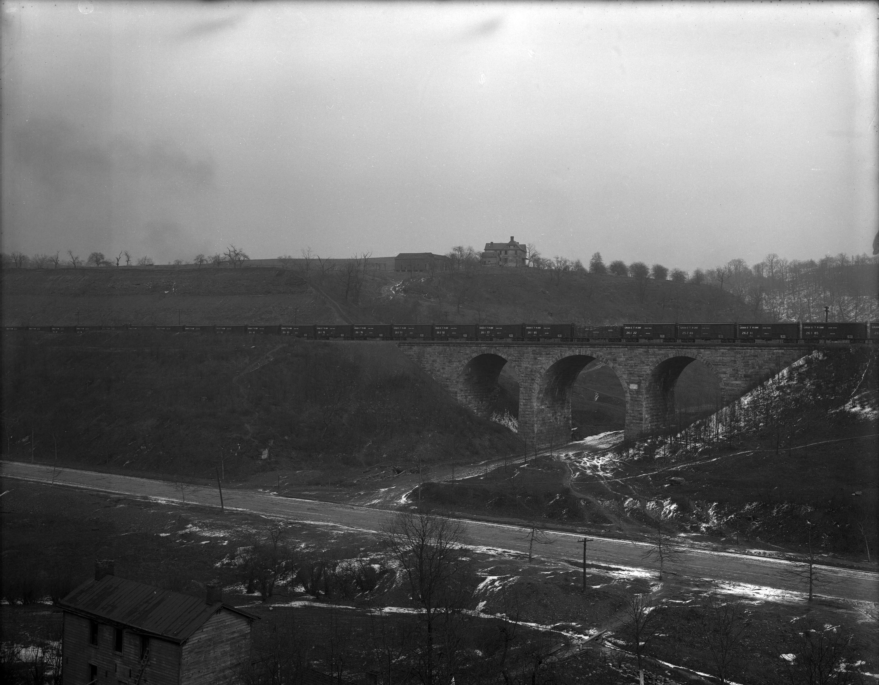 A view of the Leech Farm and future home of the Tuberculosis Hospital. A "Grand Trunk" freight train cars passing over the bridge. Date February 18, 1913 Subjects Streets--Pennsylvania--Pittsburgh. Railroad trains--Pennsylvania--Pittsburgh. Railroad bridges--Pennsylvania--Pittsburgh. Hospitals--Pennsylvania--Pittsburgh. Leech Farm (Pittsburgh, Pa.). Tuberculosis Hospital (Pittsburgh, Pa.). Washington Boulevard (Pittsburgh, Pa.). Highland Drive (Pittsburgh, Pa.). Lincoln-Lemington-Belmar (Pittsburgh, Pa.).